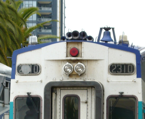 Nathan K5LA horn atop a Coaster Cabcar #2310